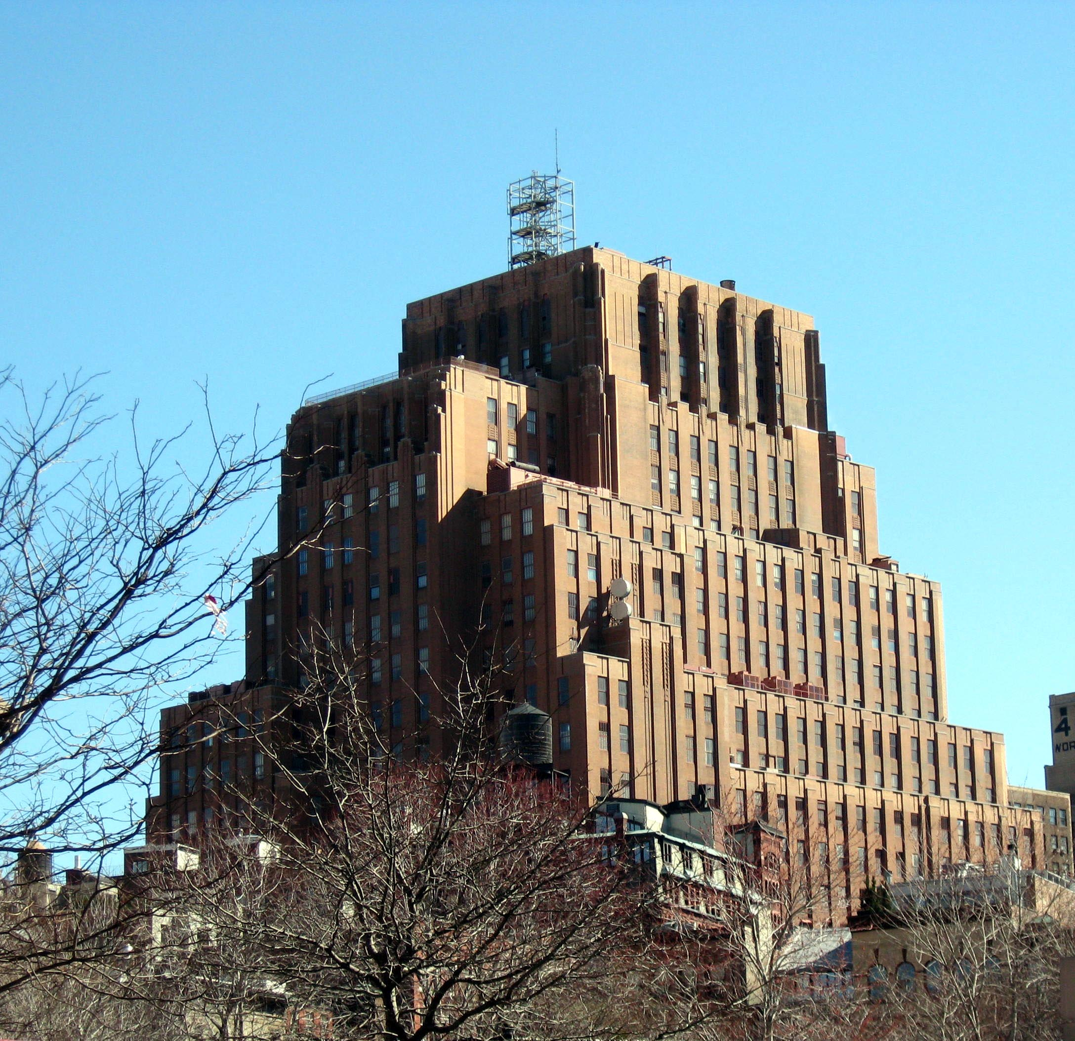 Former Western Union building at Duane Street and West Broadway as seen from the west end of Chambers Street late on a sunny morning in late winter